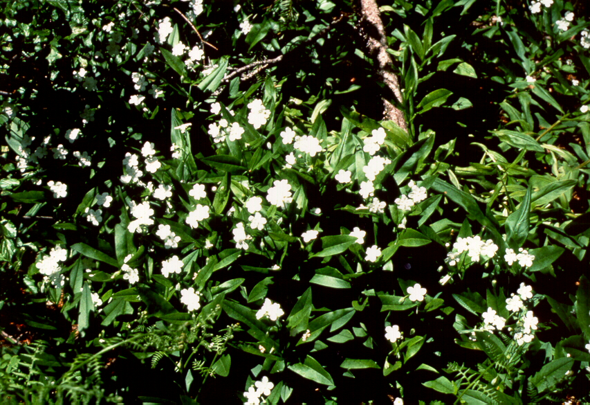 Dasynotus daubenmirei, Clearwater National Forest, USA